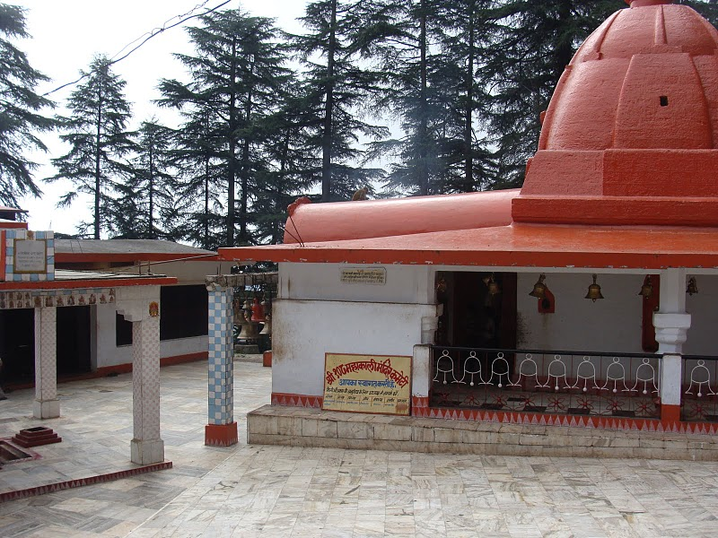 Kalika Temple at Gangolihat